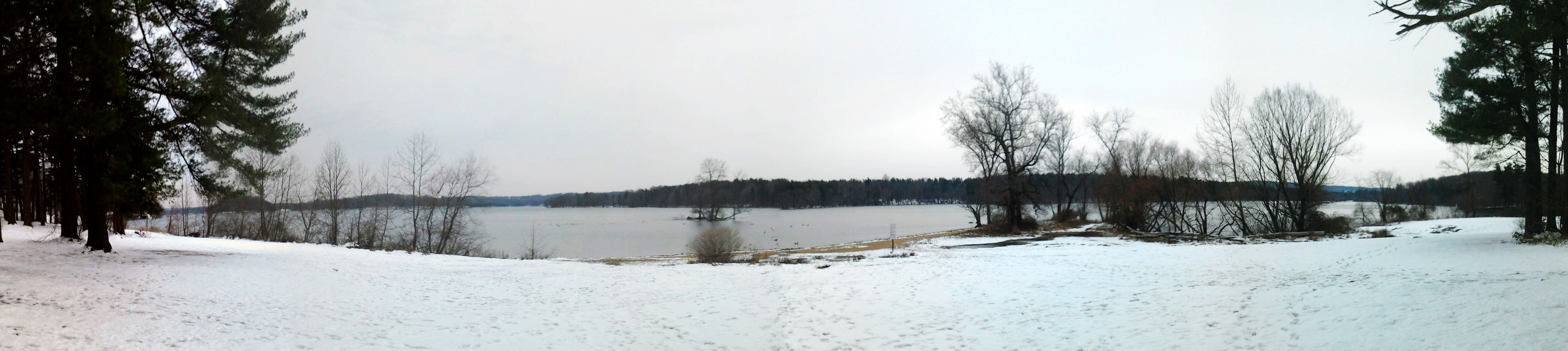 Winter of Loch Raven